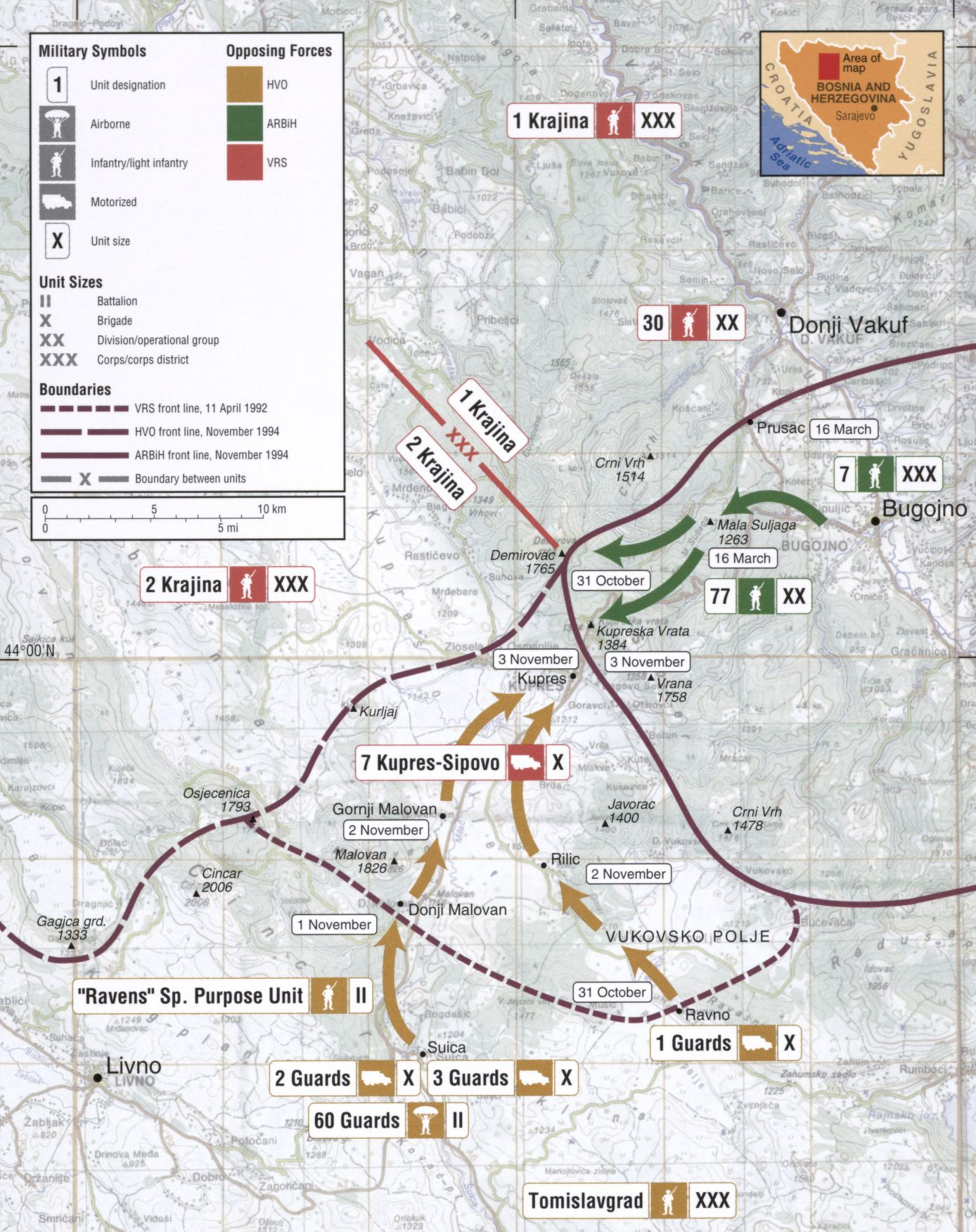 Map of Army of the Republic of Bosnia and Herzegovina and Croatian Defence Council offensives Operation Autumn-94 and Operation Cincar (Kupres, Bosnia and Herzegovina; October-November 1994). Balkan Battlegrounds Map 48 (cropped from original to show a narrowed down area of the offensive, moved map key to appear in the cropped area)